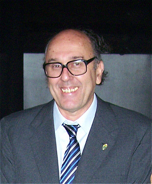 Marcos Carámbula, an Uruguayan doctor and politician.